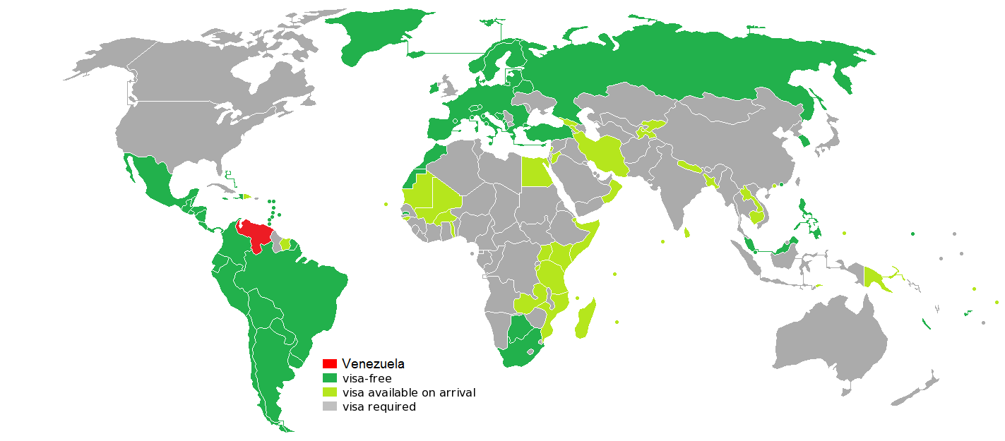 Visa-free & VOA countries for Venezuelans